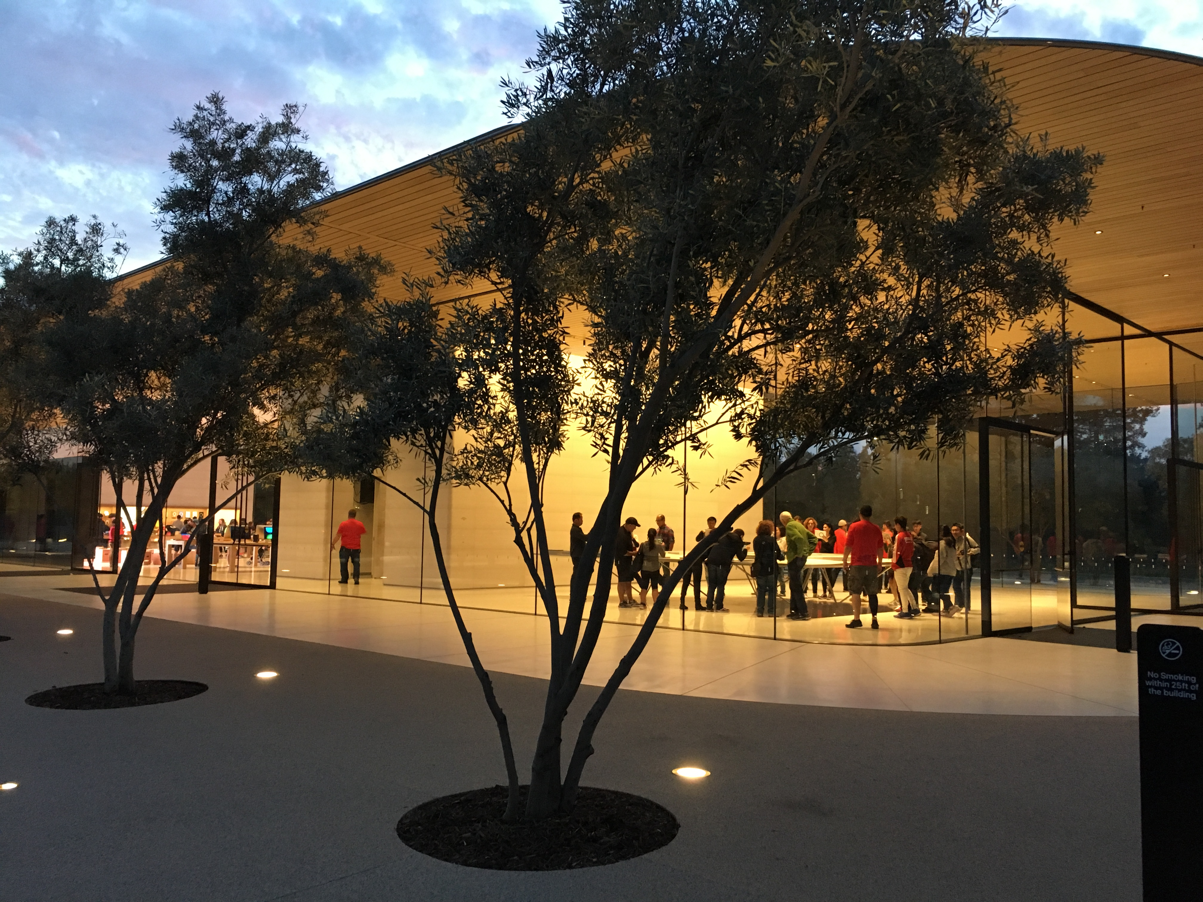 Apple Park Visitor Center